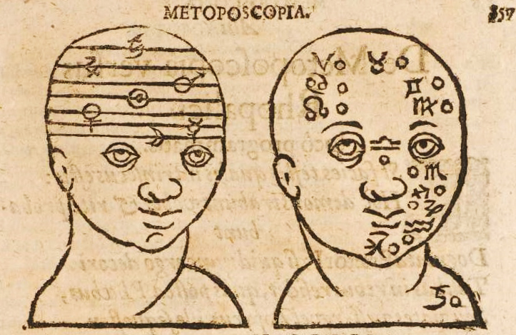 Illustration of the metoposcopy according to Johannes Praetorius (fragment)